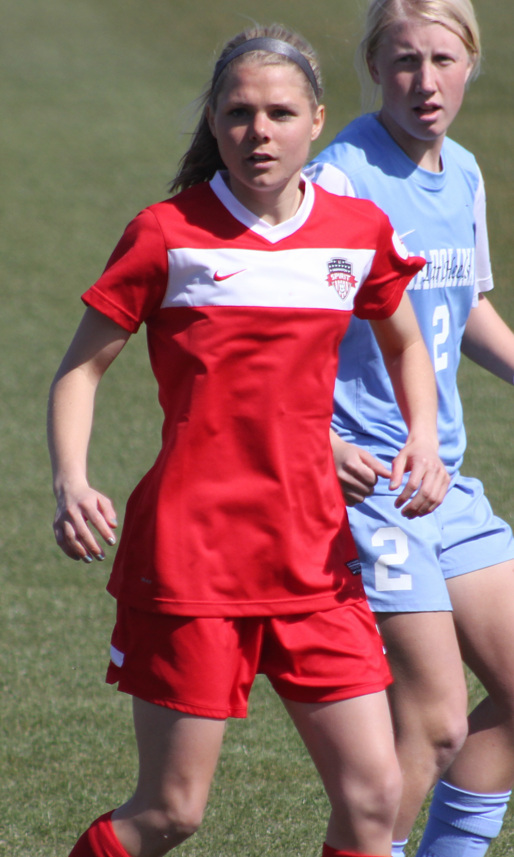 Ingrid Wells (Washington Spirit) v Caitlin Ball (UNC Tar Heels)